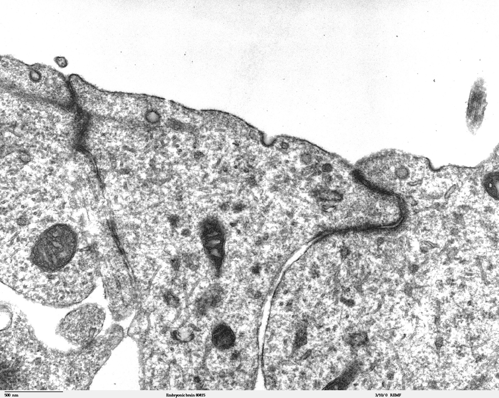 Transmission electron microscope image of a thin section cut through the developing brain tissue (telencephalic hemisphere) of an 11.5 day mouse embryo. This image of the luminal surface of the telencephalon, shows junctional complexes and pinocytotic vesicles. The junctional complex is divided into three types of junctions: 1) the most apical is the tight junction, which controls and/or restricts the movement of molecules across epithelial layers and helps maintain polarity, 2) the zonula adherens, which also includes the numerous actin filaments seen in the apical cytoplasm, and 3) the desmosome, which is a spot junction. The pinocytotic vesicles are formed from coated pits in the plasma membrane and are involved in endocytosis. JEOL 100CX TEM References: Marin-Padilla, M. (1985) "Early Vascularization of the Embryonic Cerebral Cortex: Golgi and Electron Microscope Studies", J. Comparative Neurology, 241:237-249 Marin-Padilla, M. and M. Amievo (1989) "Early Neurogenesis of the Mouse Olfactory Nerve: Golgi and Electron Microscope Studies", J. Comparative Neurology, 288:339-352